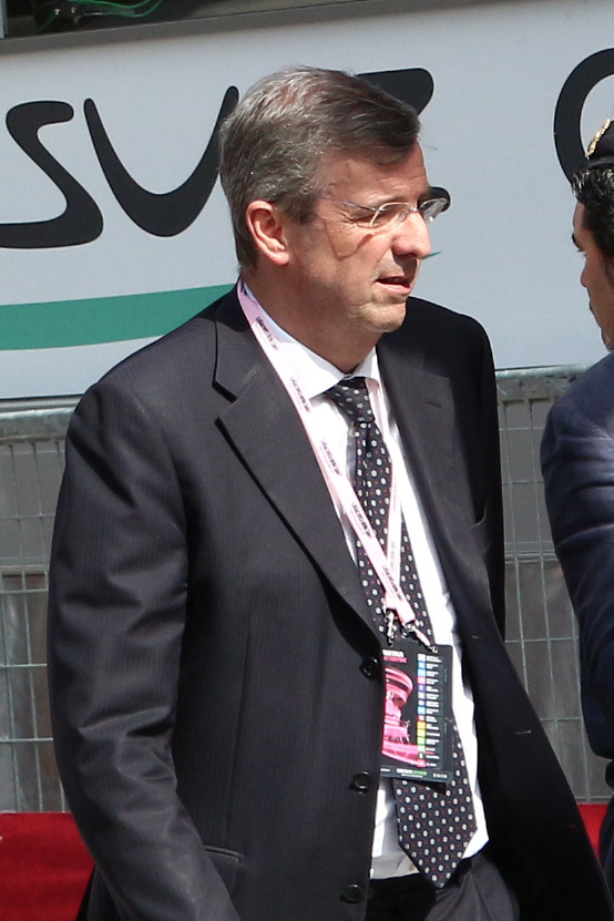 Claudio Burlando at Giro d'Italia 2014